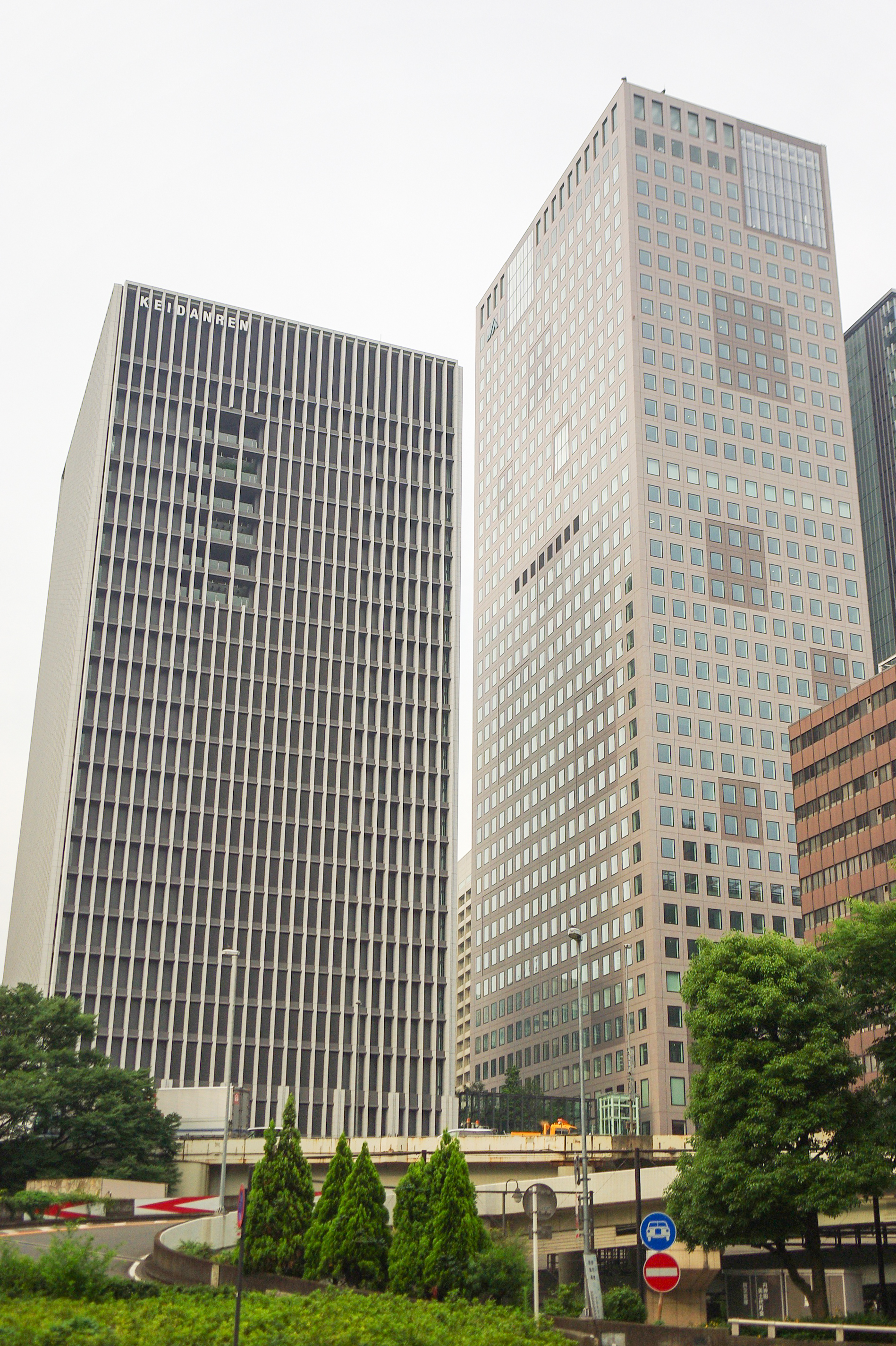 Photograph of Keidanren Kaikan (left, the head office of Japan Business Federation) and JA Building (right) in Otemachi, Chiyoda, Tokyo, Japan.